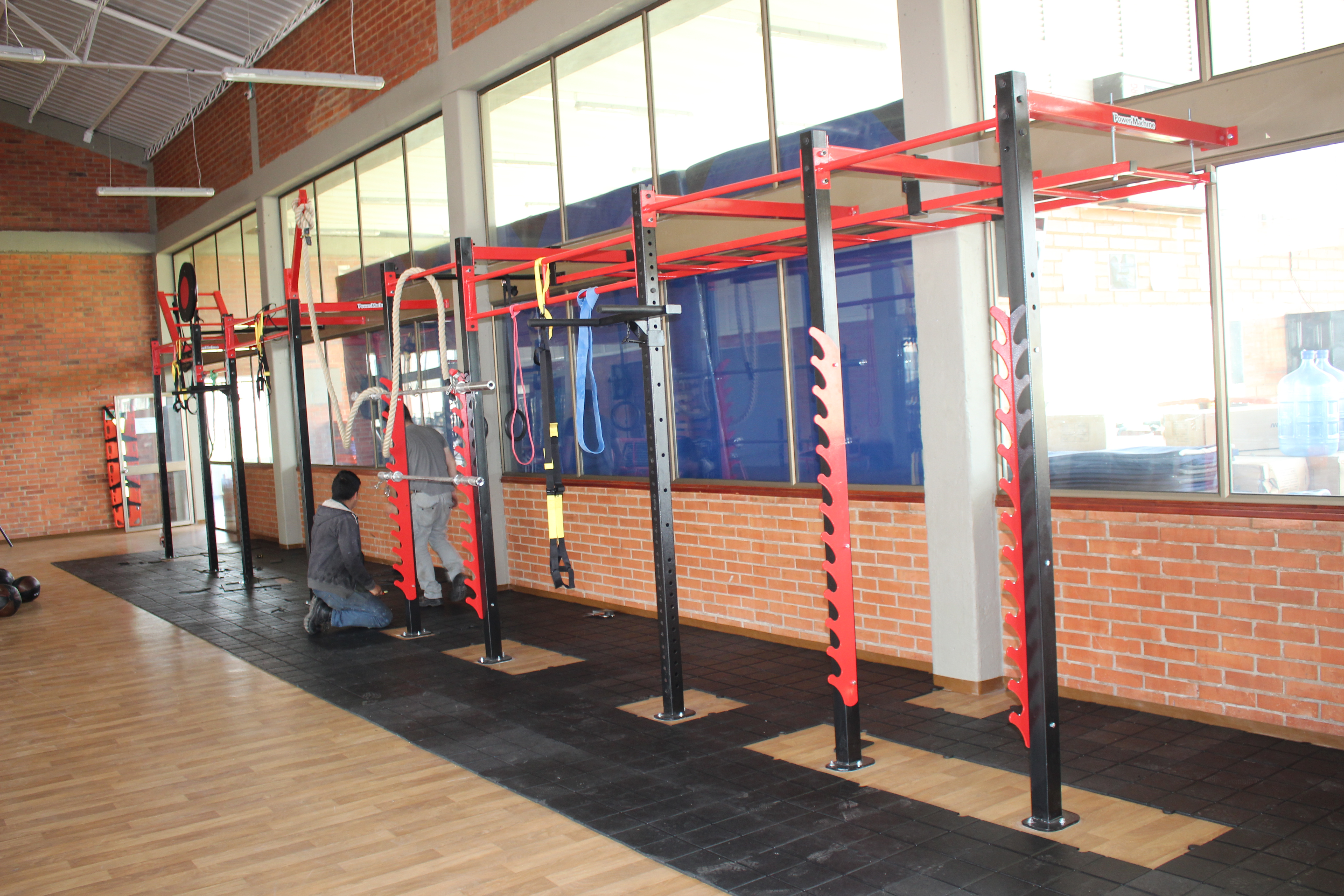 imcrdz